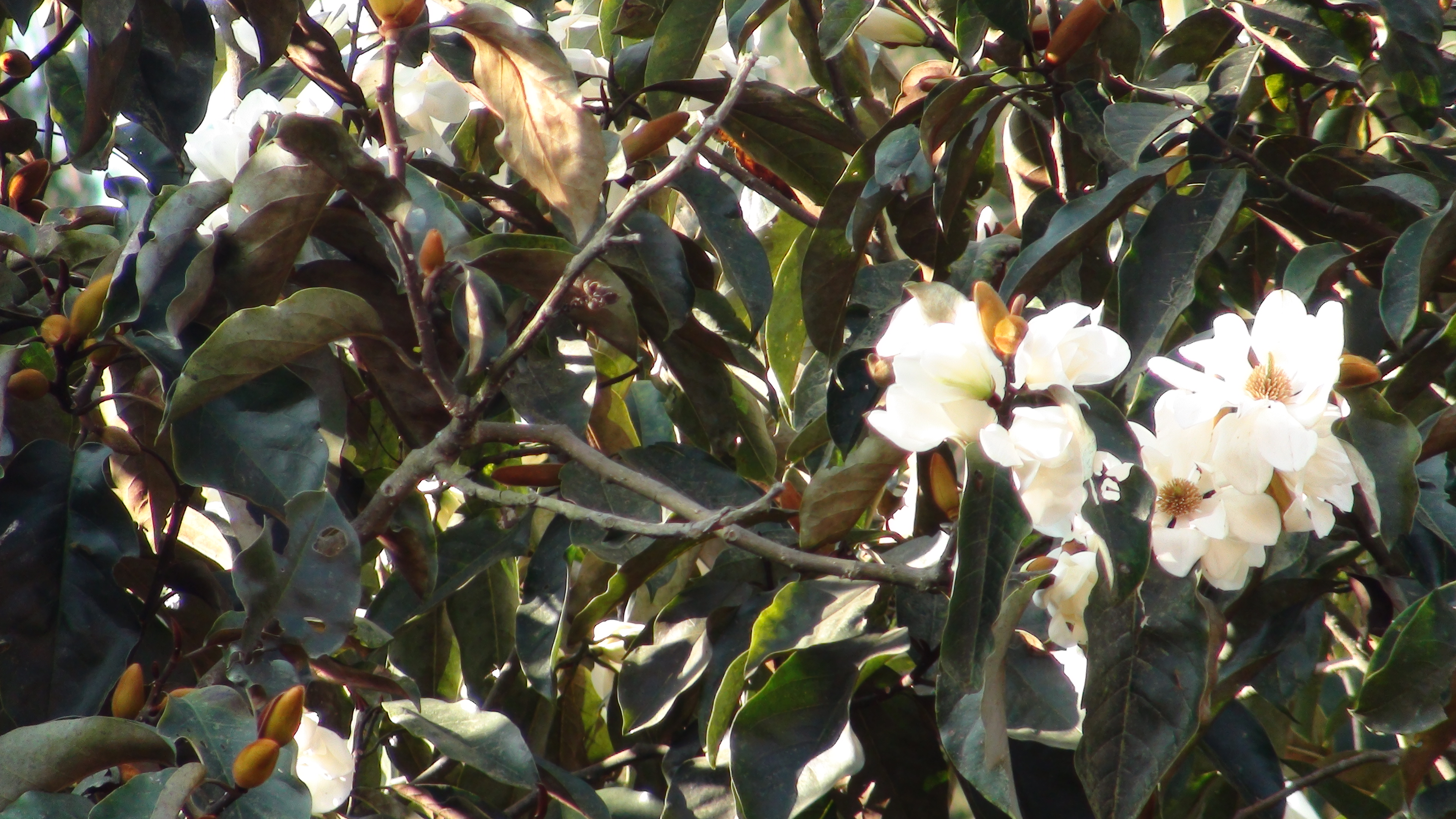 Magnolia champaca found in Ilam of Nepal नेपाली: इलामको करफोकमा पाइएको चाँपको फूल